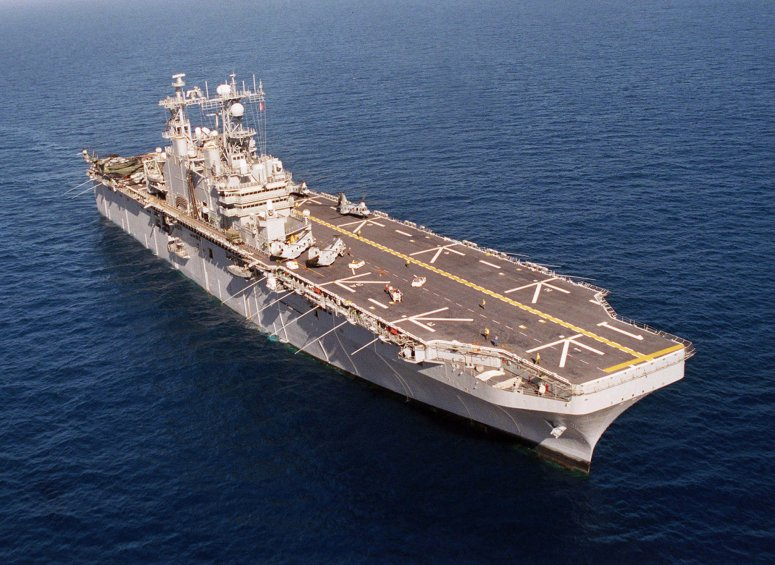 Tarawa (LHA-1) on patrol off southern California in support of exercise Kernel Blitz '97, 28 June 1997.